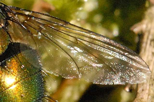 Lucilia bufonivora from Commanster, Belgian High Ardennes .